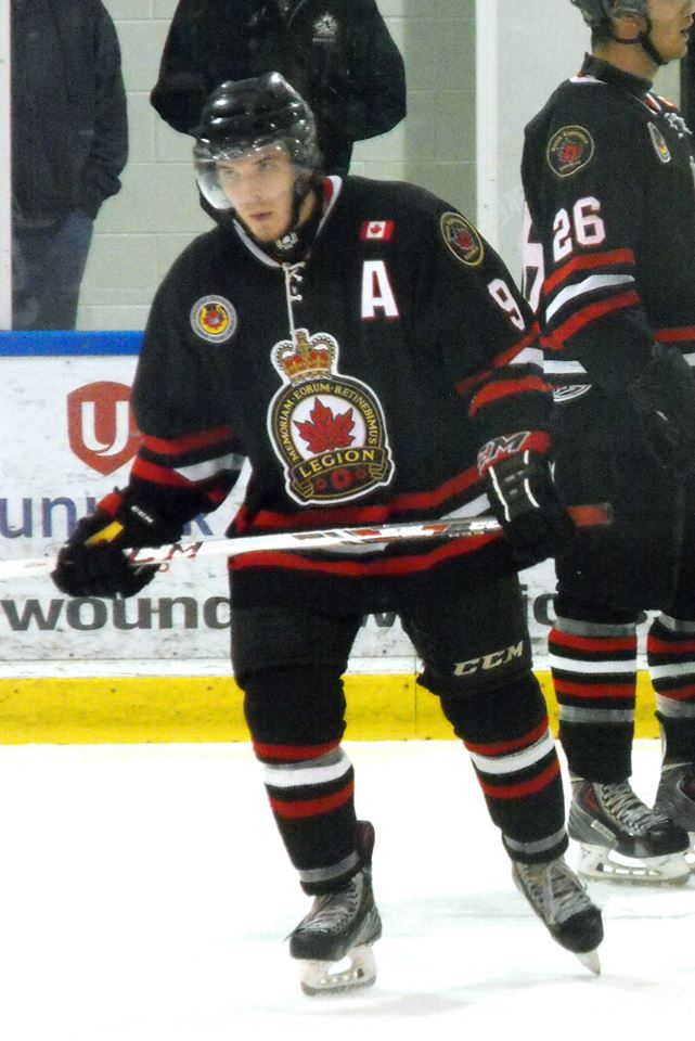 This photo was taken by Devan Mighton during the 2014-15 GOJHL season.